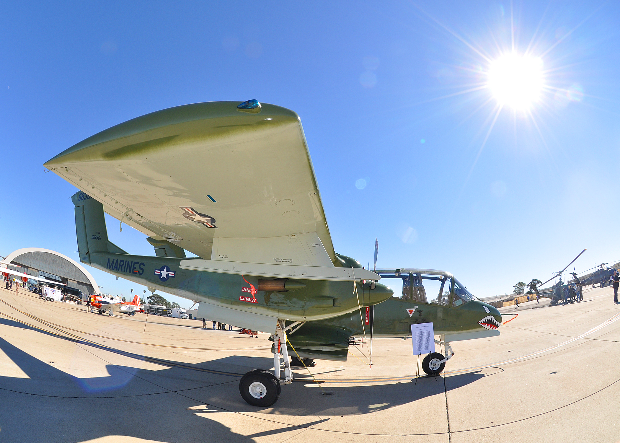 SAN DIEGO (Feb. 11, 2011) Hundreds of current and historic Navy aircraft are on display at the Naval Air Station North Island flight line to participate in the Centennial of Naval Aviation Open House and Parade of Flight Feb. 12. The Navy is observing the Centennial of Naval Aviation with a series of nationwide events celebrating 100 years of heritage, progress and achievement in naval aviation. (U.S. Navy photo by Mass Communication Specialist 1st Class Chris Fahey/Released)